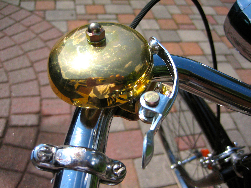 Brass Bicycle Bell on a vintage 1972 Raleigh Sports @